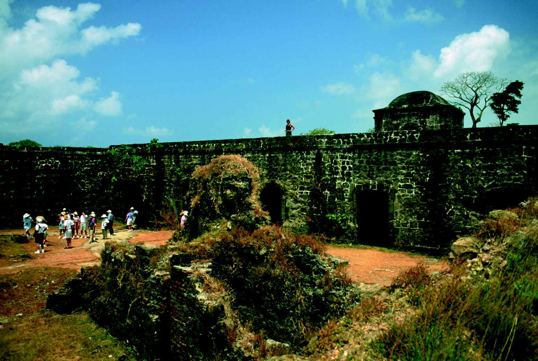 Situated on a promontory above the Chagres River, Fort San Lorenzo is among the most attractive of the many hiking, sightseeing, and bird watching areas in the San Lorenzo Protected Area. In addition to the historic ruins, several bird species may be seen on any day—among them terns, parakeets, flycatchers, elaenia, martins, swallows, and robins.